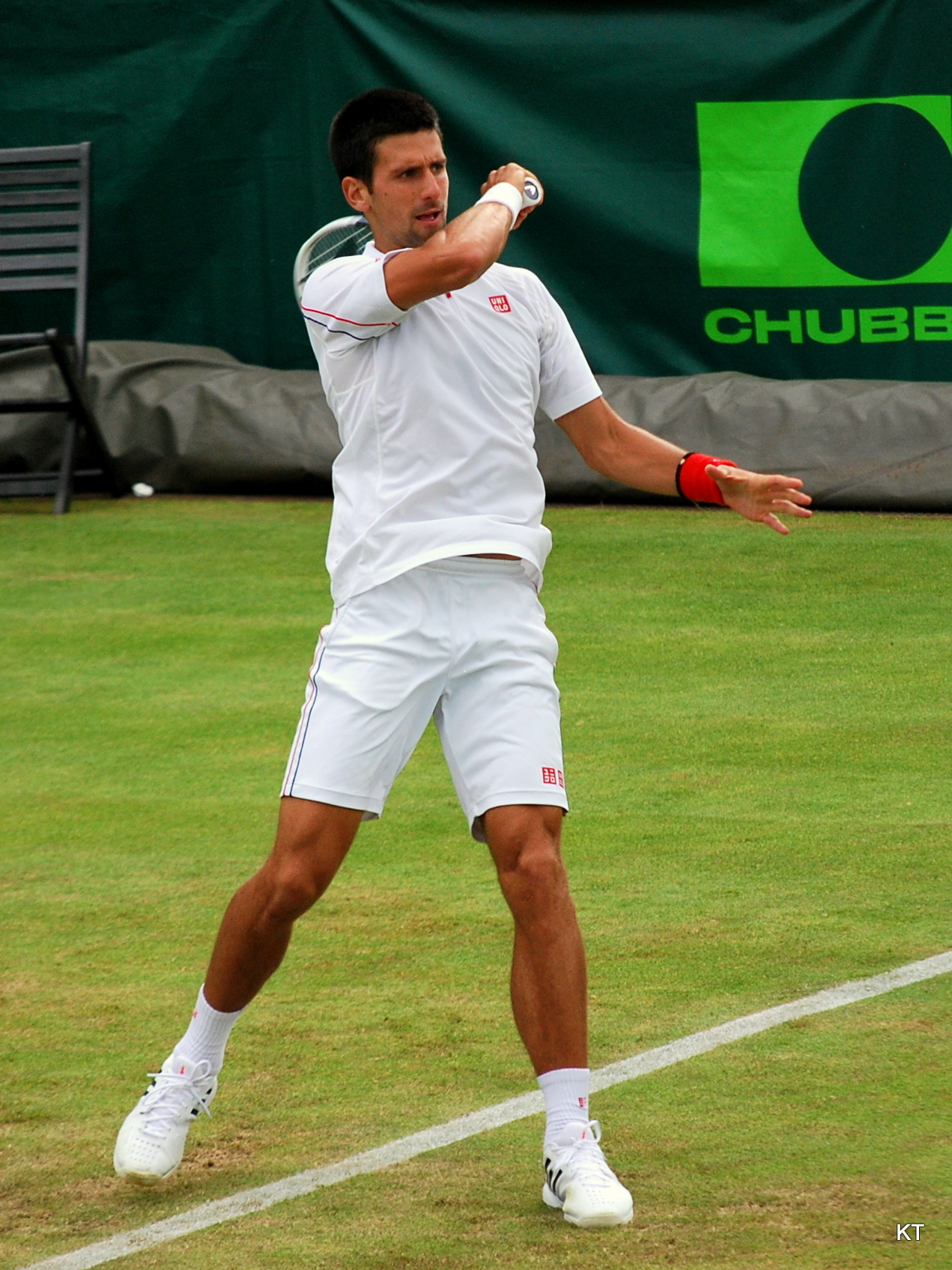 The Boodles, Stoke Park 2012.